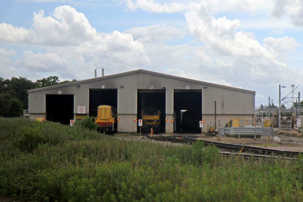 Freightliner Class 90, 90041 on-shed, south of Crewe station